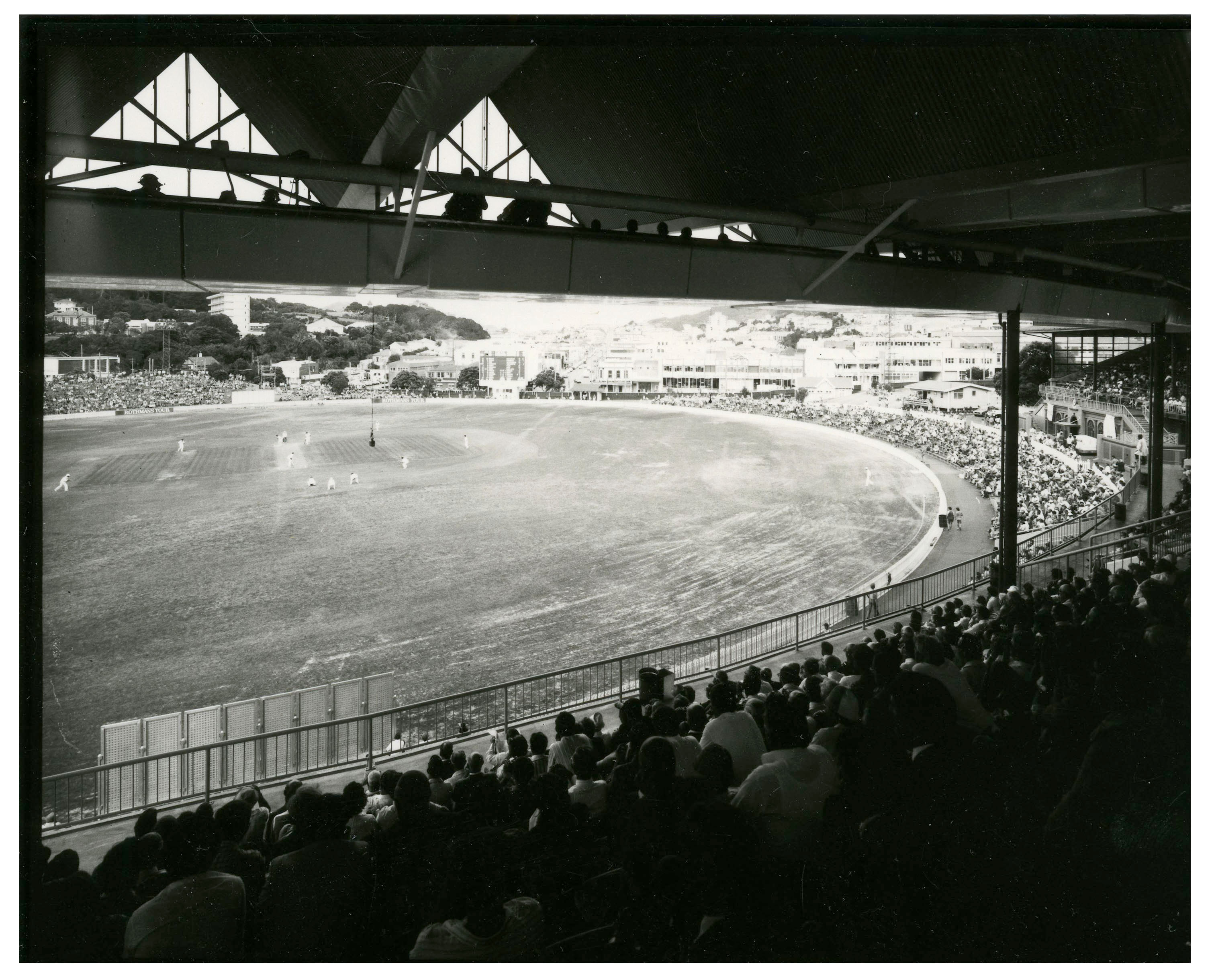 This image was taken by the National Publicity Studios of the test match between New Zealand and India at the Basin Reserve in Wellington in February 1981.India tour of New Zealand, 1st Test: New Zealand v India at Wellington, Feb 21-25, 1981 At the end of the Second World War, publicity became the responsibility of the Information Section of the Prime Minister's Department. The purpose of the National Publicity Studios was to provide advice to government departments and state agencies on the provision of photographic, art, and display services and in particular to assist in the production of publicity material aimed at conveying a favourable image of New Zealand. The National Publicity Studios was divided into two main sections: Photographic - comprising photographers, a laboratory, a photo library and facilities for audio-visual productions & Art - comprising graphic art, display art, display workshops and silkscreen. In 1987, the National Publicity Studios was disestablished and replaced by Communicate New Zealand. For further enquiries please Reference: AAQT 6539 W3537 box 17 CN 16334